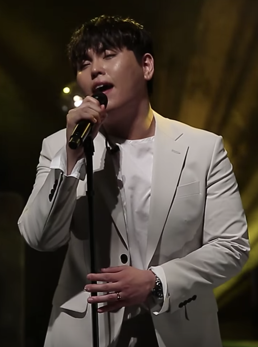 South Korean singer Han Dong-geun (한동근) performing in May 2017